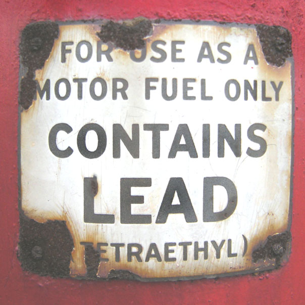 Lead warning on a gas pump at Keeler's Korner, Lynnwood, Washington. Keeler's Korner, a former grocery store and gas station (built 1927) listed on the National Register of Historic Places, listed 1982, NRHP listing #82004287.